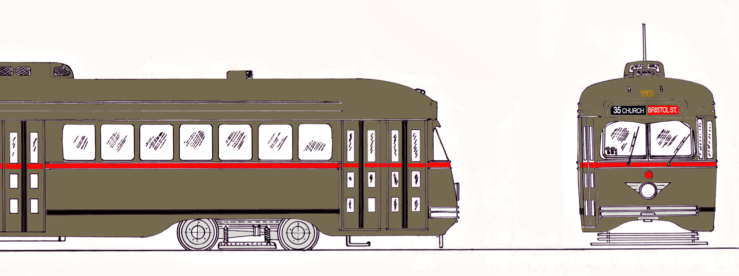 «B&QT (Brooklyn & Queens Transit) : 1st Paint Scheme 1950-1953» (original caption)